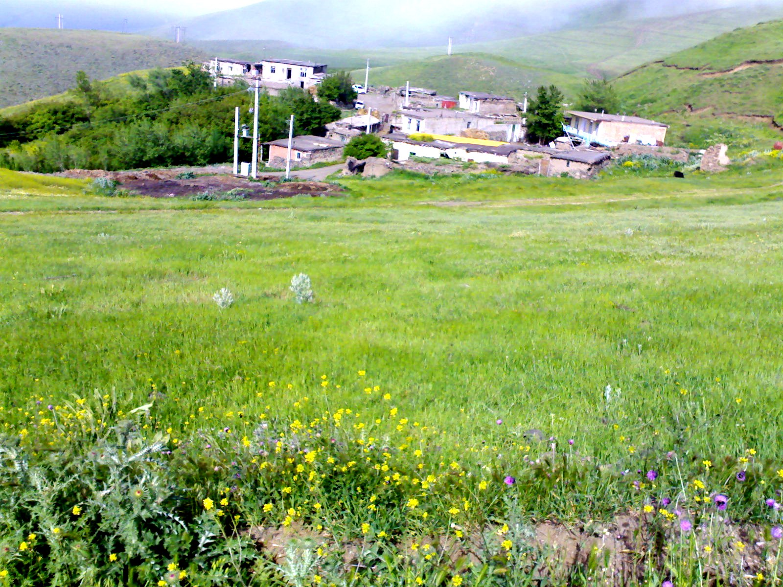 Khan kandi Village of Germi Municipality